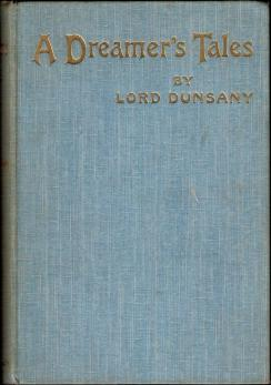 1st edition of A Dreamer's Tales